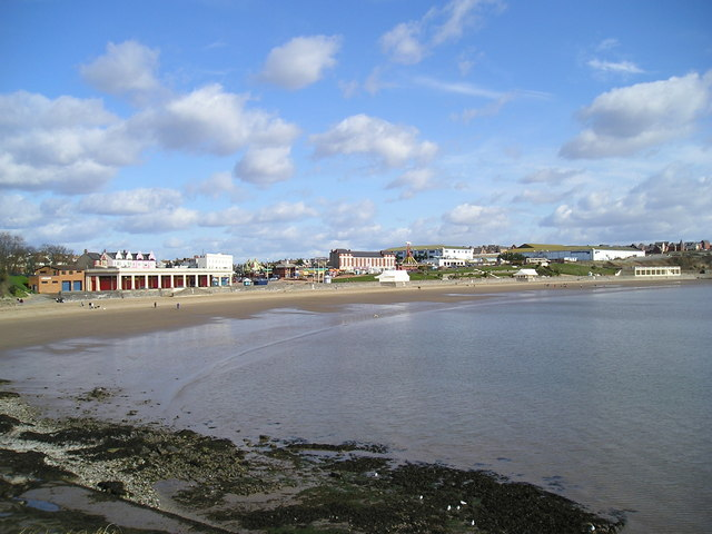 Barry Island